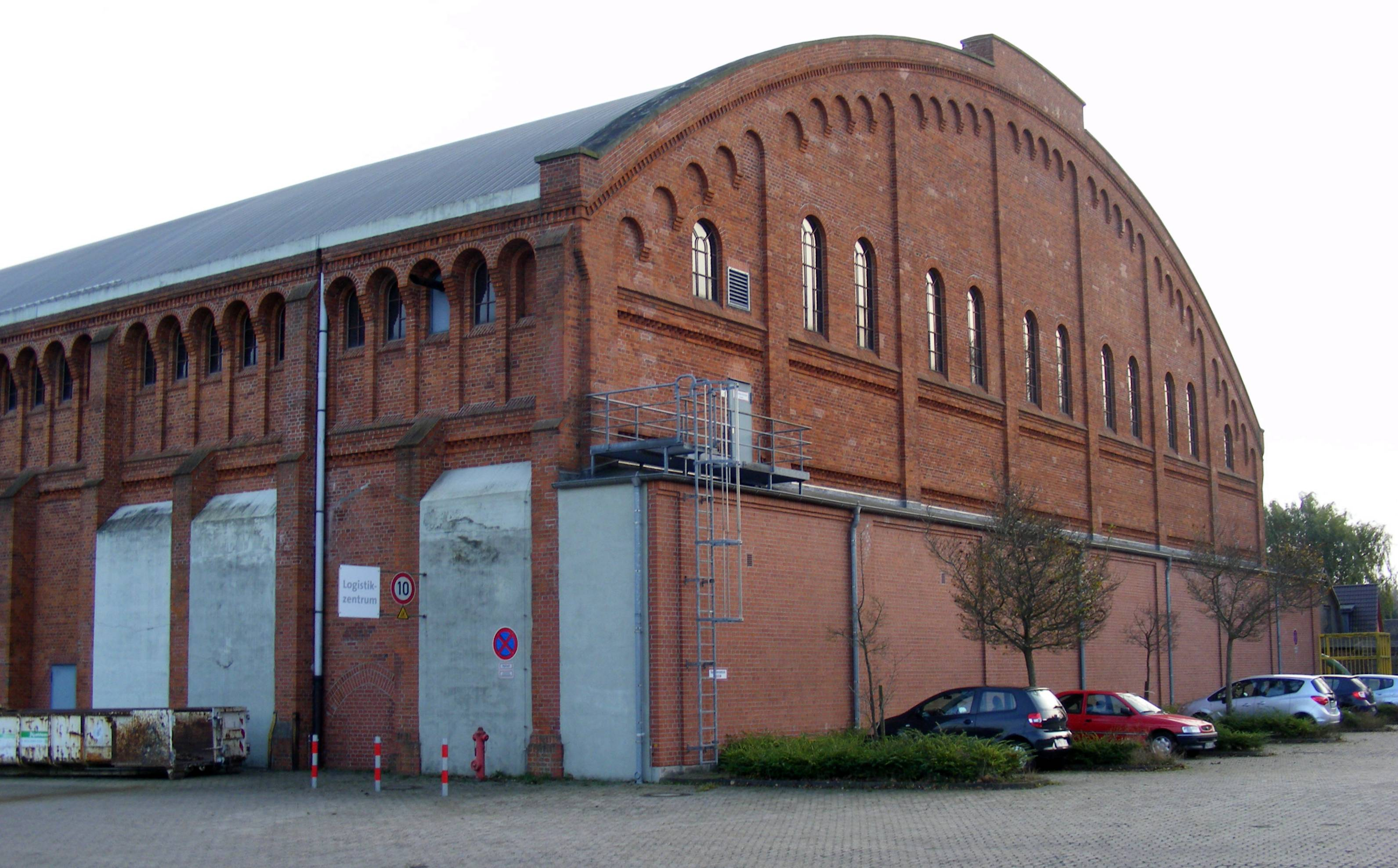 Former coal store of Bremen gasworks, northwestern gable